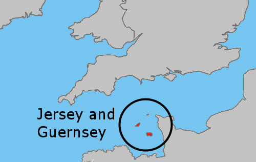 Image of the Crown Dependencies